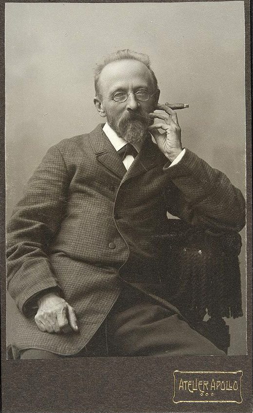 Emil Nervander.